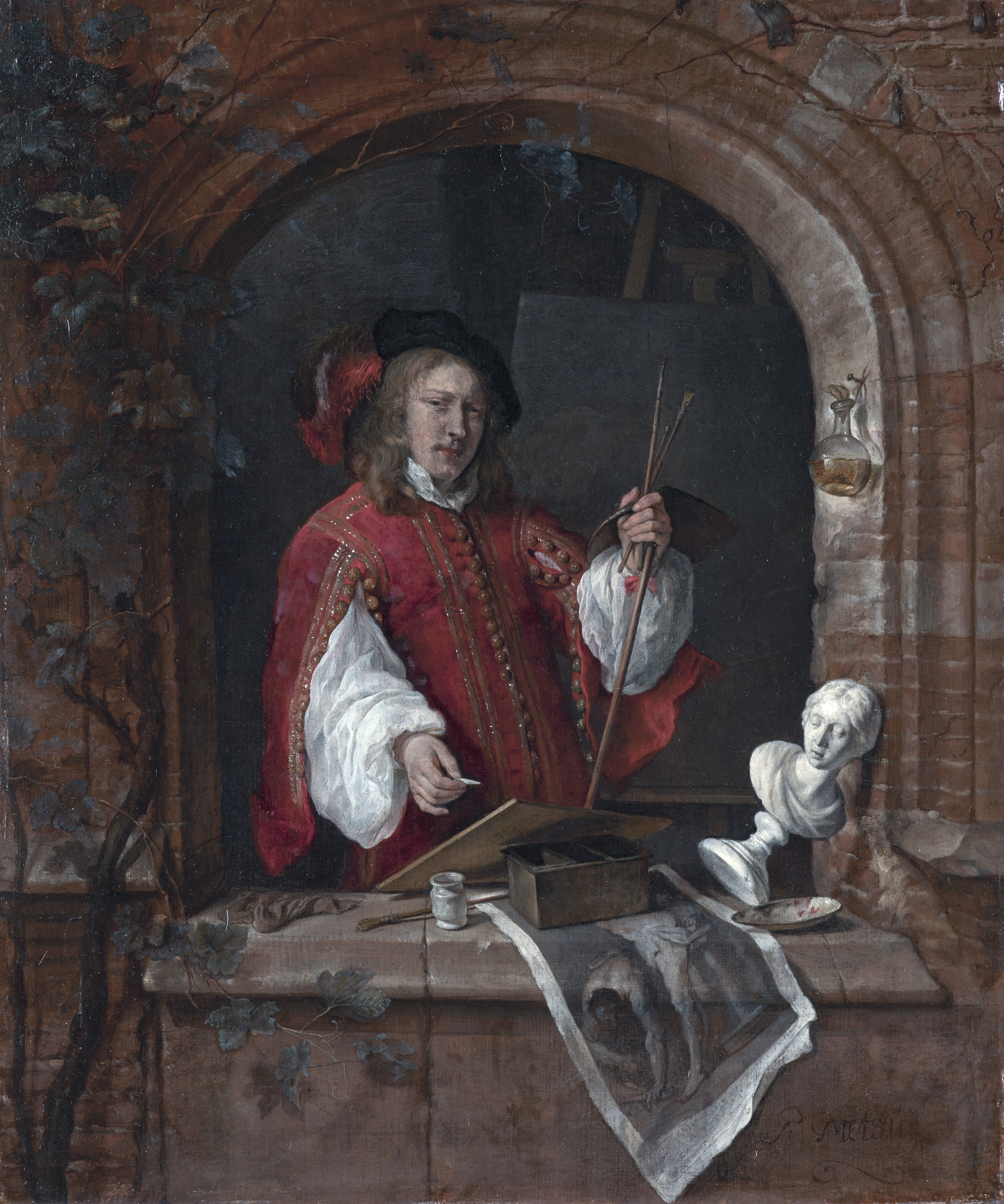 Self-Portrait standing at a Window oil on panel 38 x 31 cm signed b.r.: G. Metsu circa 1655-1658